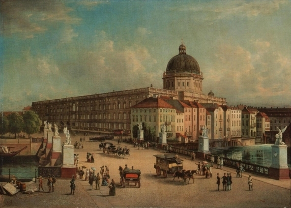 Berlin (Berlin-Mitte), Stadtschloss after 1853